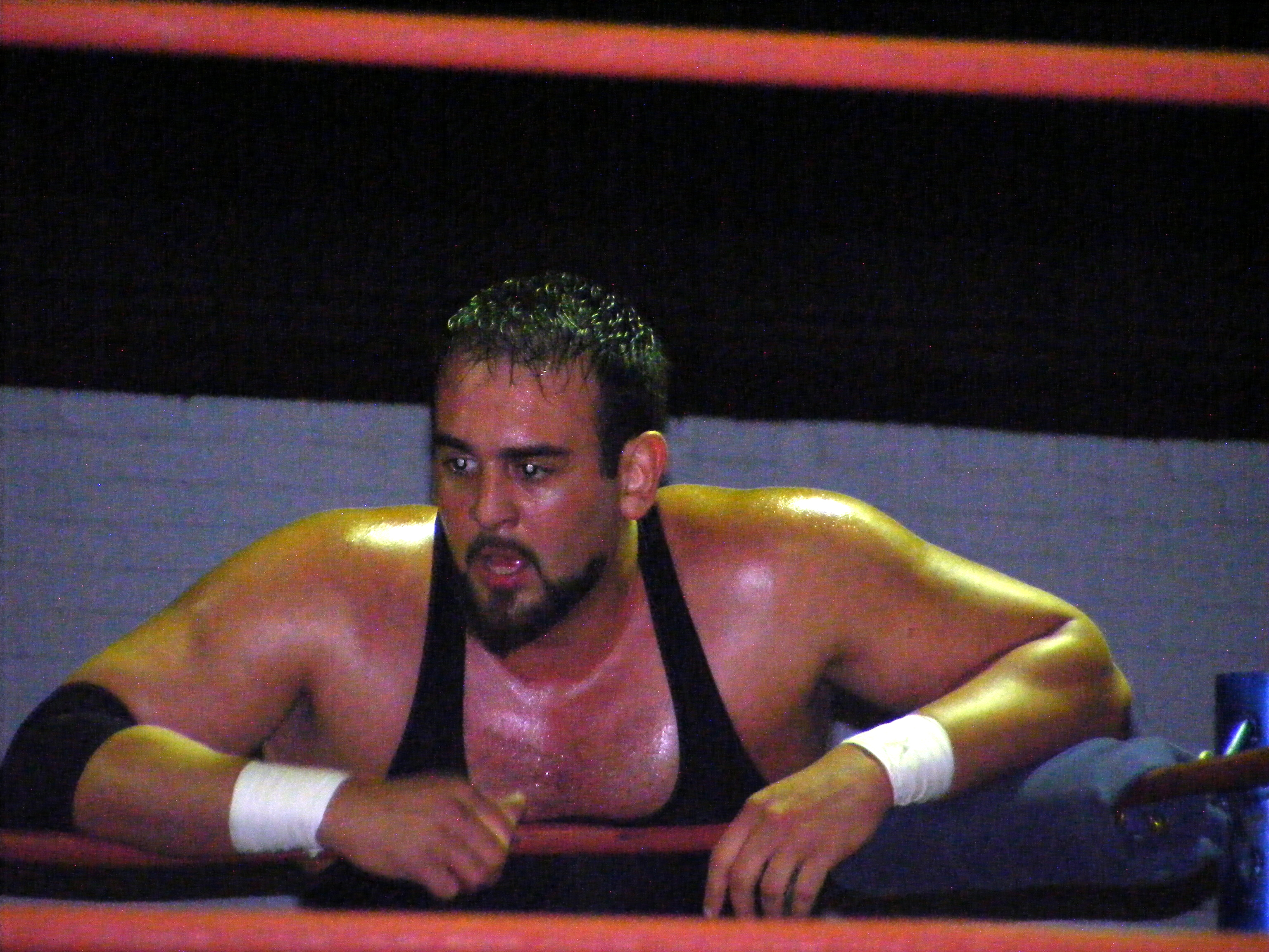 Professional wrestler Max Bauer at an NECW show in May 2009